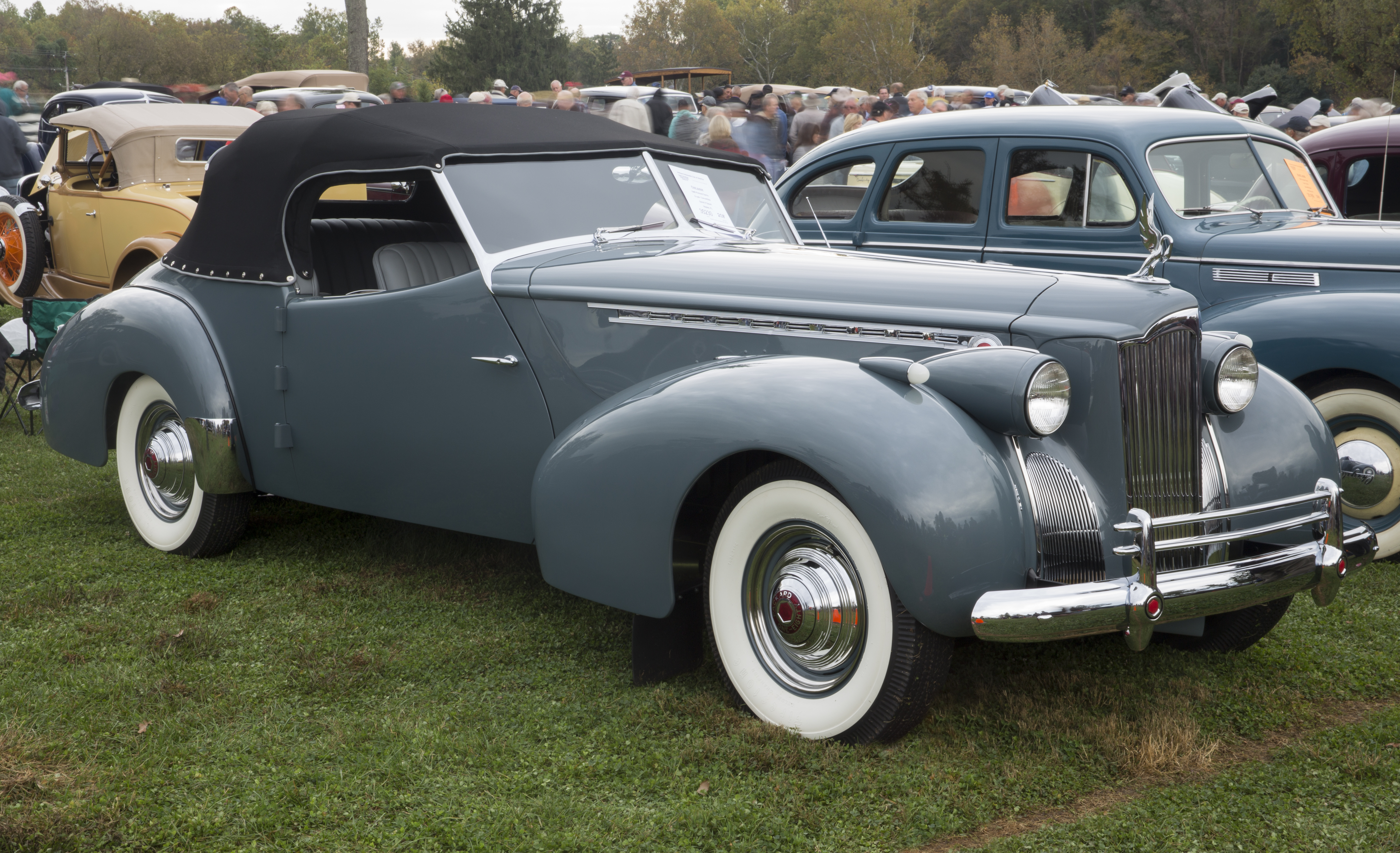 A 1940 Packard 180 Convertible Victoria by Darrin in the show area at Hershey 2019. 48 (some say 44) of these were built.